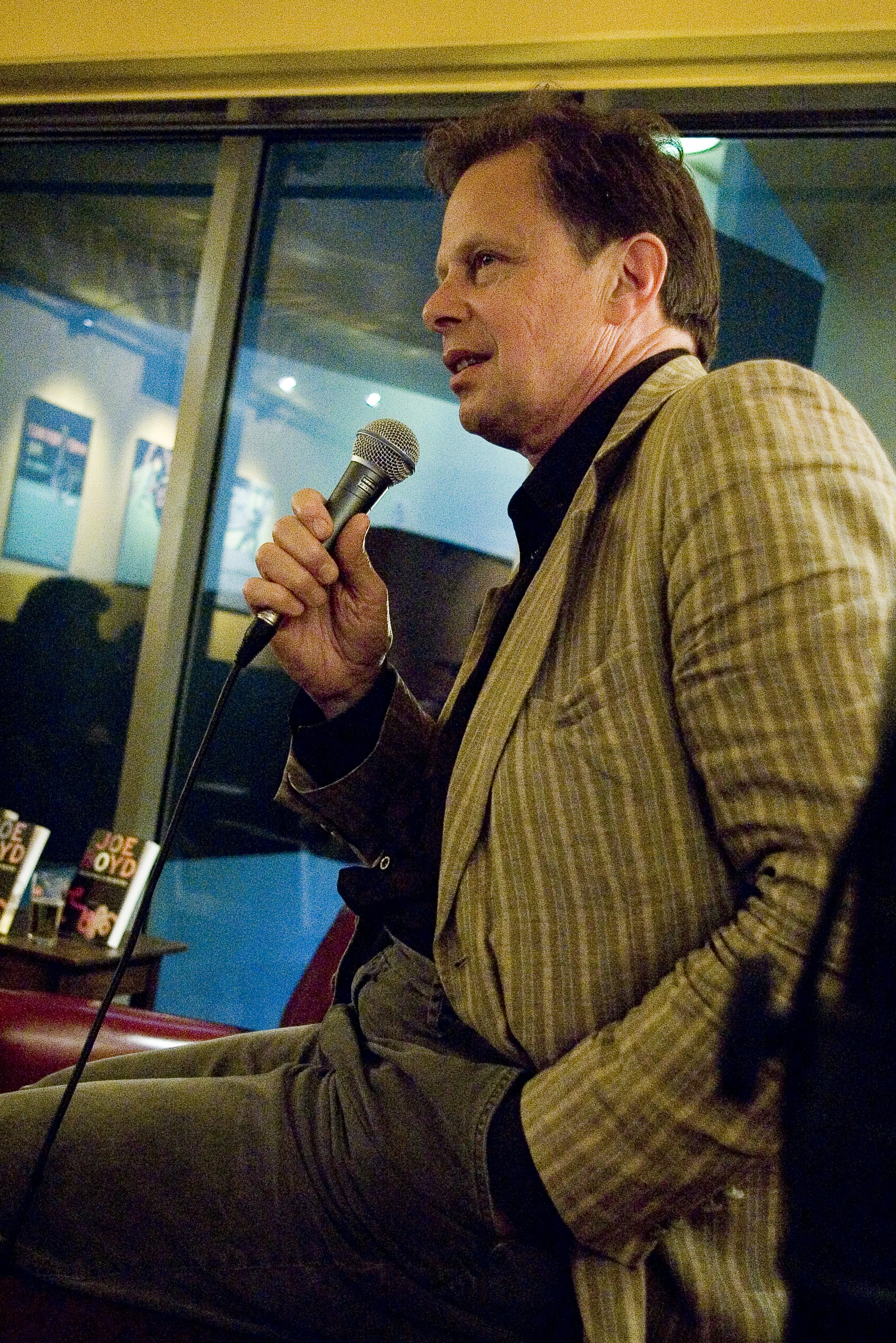 Joe Boyd at the presentation of his book "White Bicycles" in the Ancienne Belgique Café in Brussels, Belgium.